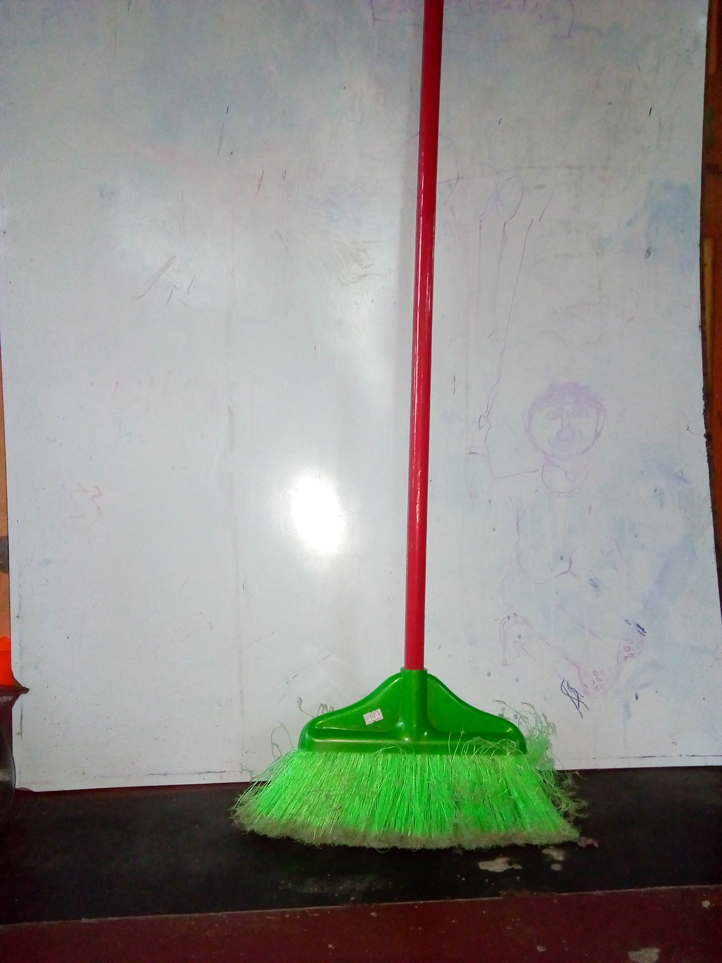 In this broomstick plastic fibre has been used instead of coir fibre.